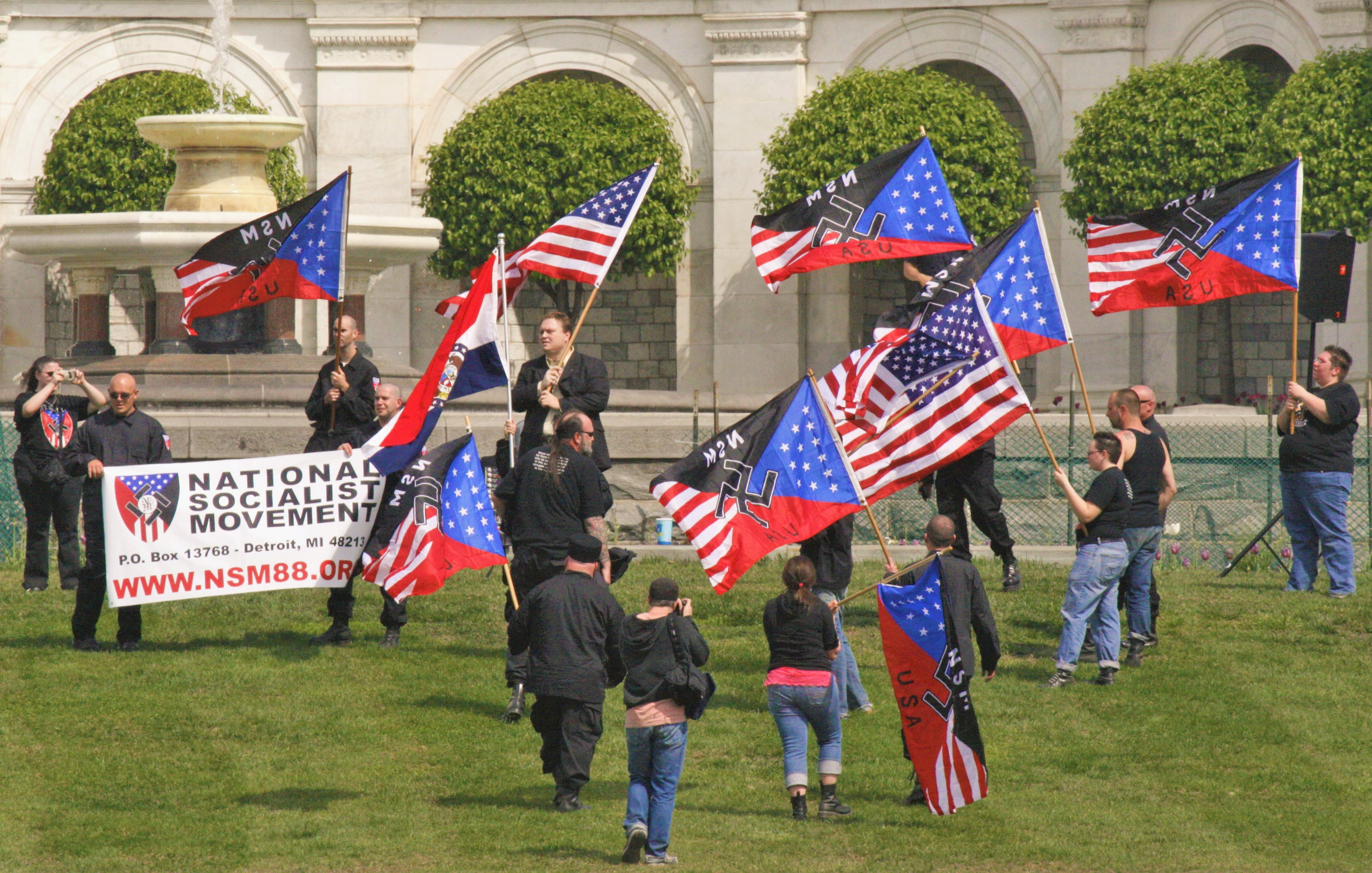 National Socialist Movement event on the West lawn of the US Capitol. They are displaying the flag seen in File:Drapeaux National Socialist Movement.svg and the coat of arms in File:Blason_du_National_Socialist_Movement_usa.svg